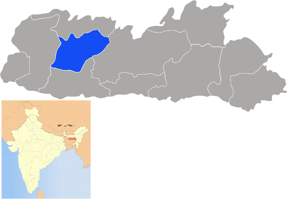 East Garo Hills district of Meghalaya